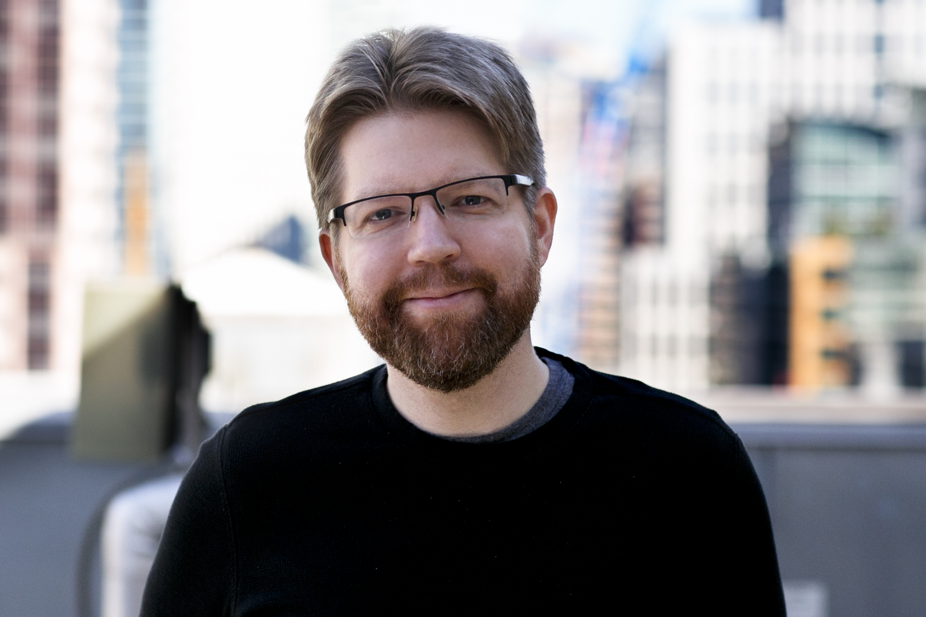 Staff photo for the Wikimedia Foundation staff page.